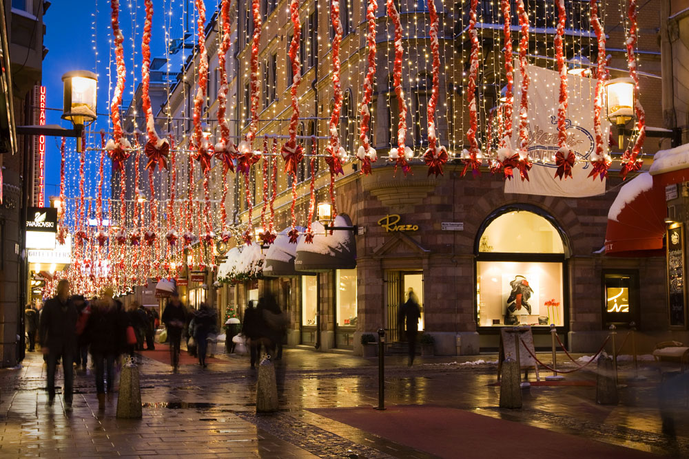 Christmas time on Biblioteksgatan in Stockholm. A nice evening just before Christmas Eve with some fresh snow.